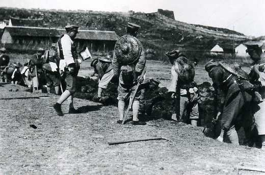 The NRA troops trenches to prepare for attacking Wuchang City.